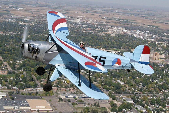 CASA 1.131 Bücker Jungmann flying in the colors of the Luchtvaart Afdeeling. Photo taken 2008 Colorado USA.